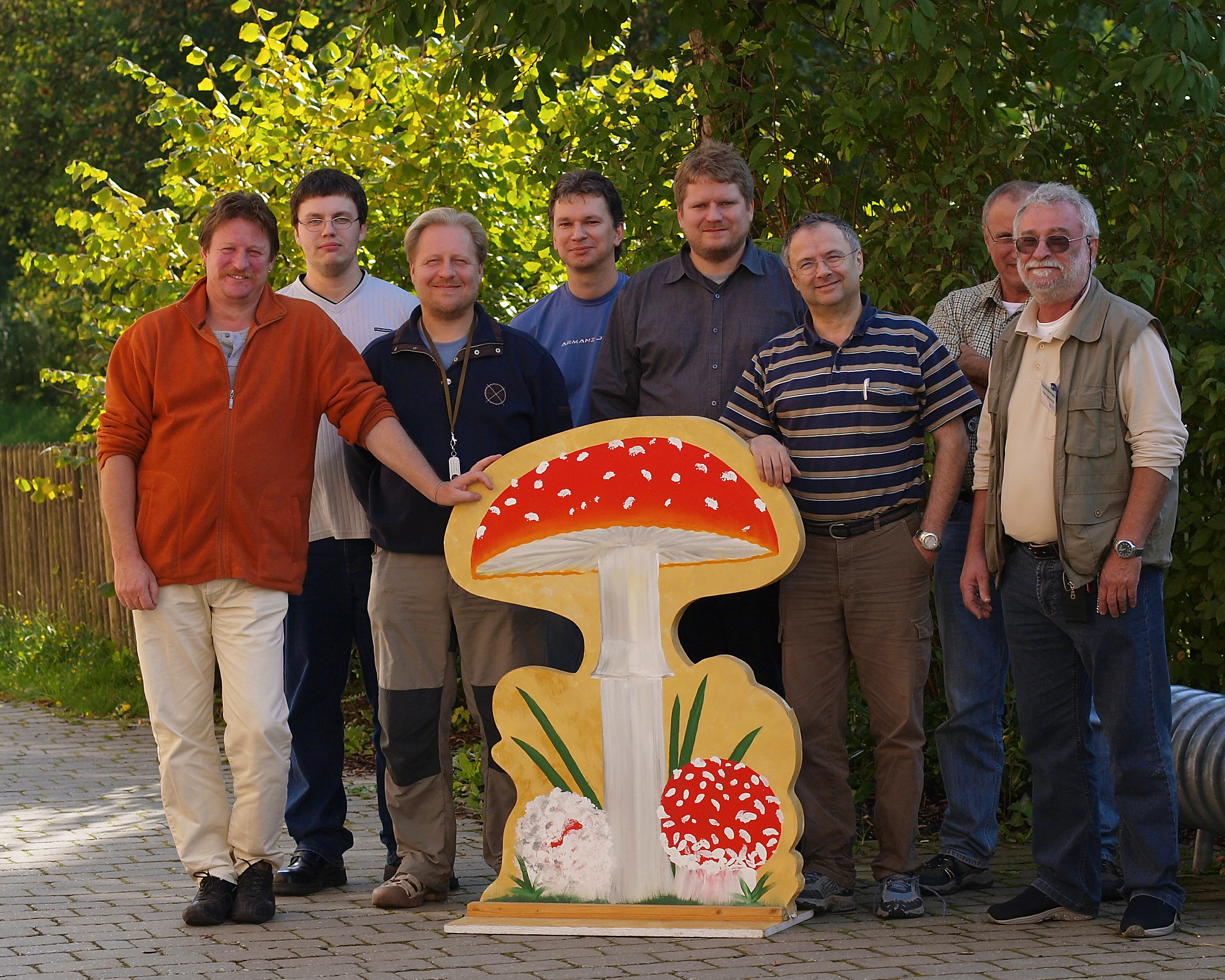 The first executive committee of the Bavarian Mycological Society